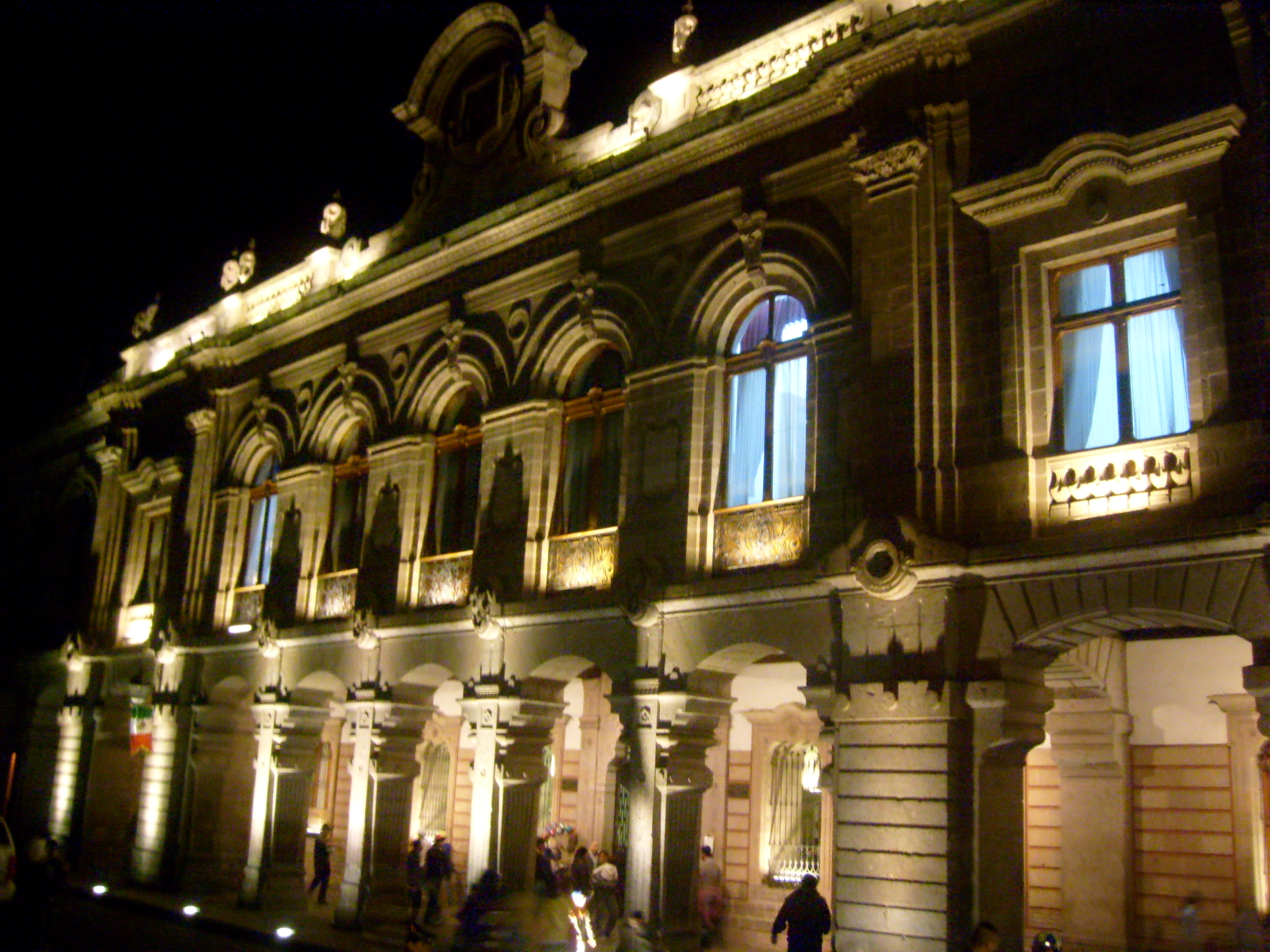 este palacio es hermoso visitenlo